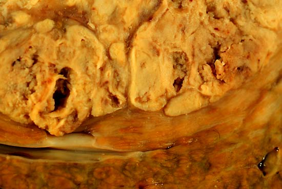 This is the same case presented in Image:Hepatocellular carcinoma 1.jpg. The closer view on this picture, shows tumor at the top, cirrhotic liver at the bottom, and a fibrous reaction in between. Hepatocellular carcinomas can have a variety of gross patterns, including multinodular/multifocal, such as this one. The photos were shot with a Minolta X-370 with 100mm bellows lens on Kodak Elite ISO 100 transparency film. The specimen was sliced fresh and fixed in formalin overnight, then briefly immersed in 70% alcohol to retrieve some of the native color and dull the surface reflections. Photograph by Ed Uthman, MD. Public domain. Posted 23 Sep 00